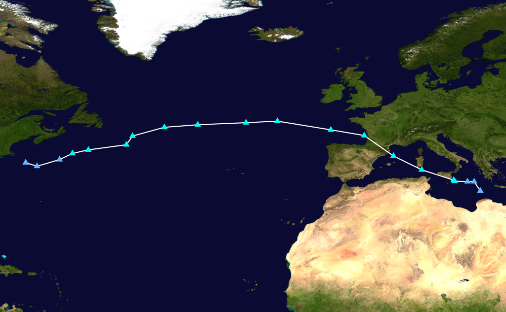 Track map of Storm Myriam of the 2019-20 European windstorm season. The points show the location of the storm at 6-hour intervals. The colour represents the storm's maximum sustained wind speeds as classified in the Saffir–Simpson scale (see below), and the shape of the data points represent the nature of the storm, according to the legend below. Saffir–Simpson scale Tropical depression≤38 mph≤62 km/h Category 3111–129 mph178–208 km/h Tropical storm39–73 mph63–118 km/h Category 4130–156 mph209–251 km/h Category 174–95 mph119–153 km/h Category 5≥157 mph≥252 km/h Category 296–110 mph154–177 km/h Unknown Storm type Tropical cyclone Subtropical cyclone Extratropical cyclone / Remnant low / Tropical disturbance / Monsoon depression